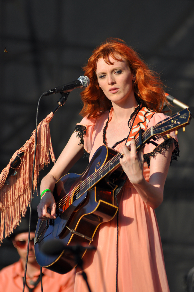 Karen Elson at the Williamsburg Waterfront, Brooklyn, June 20, 2010